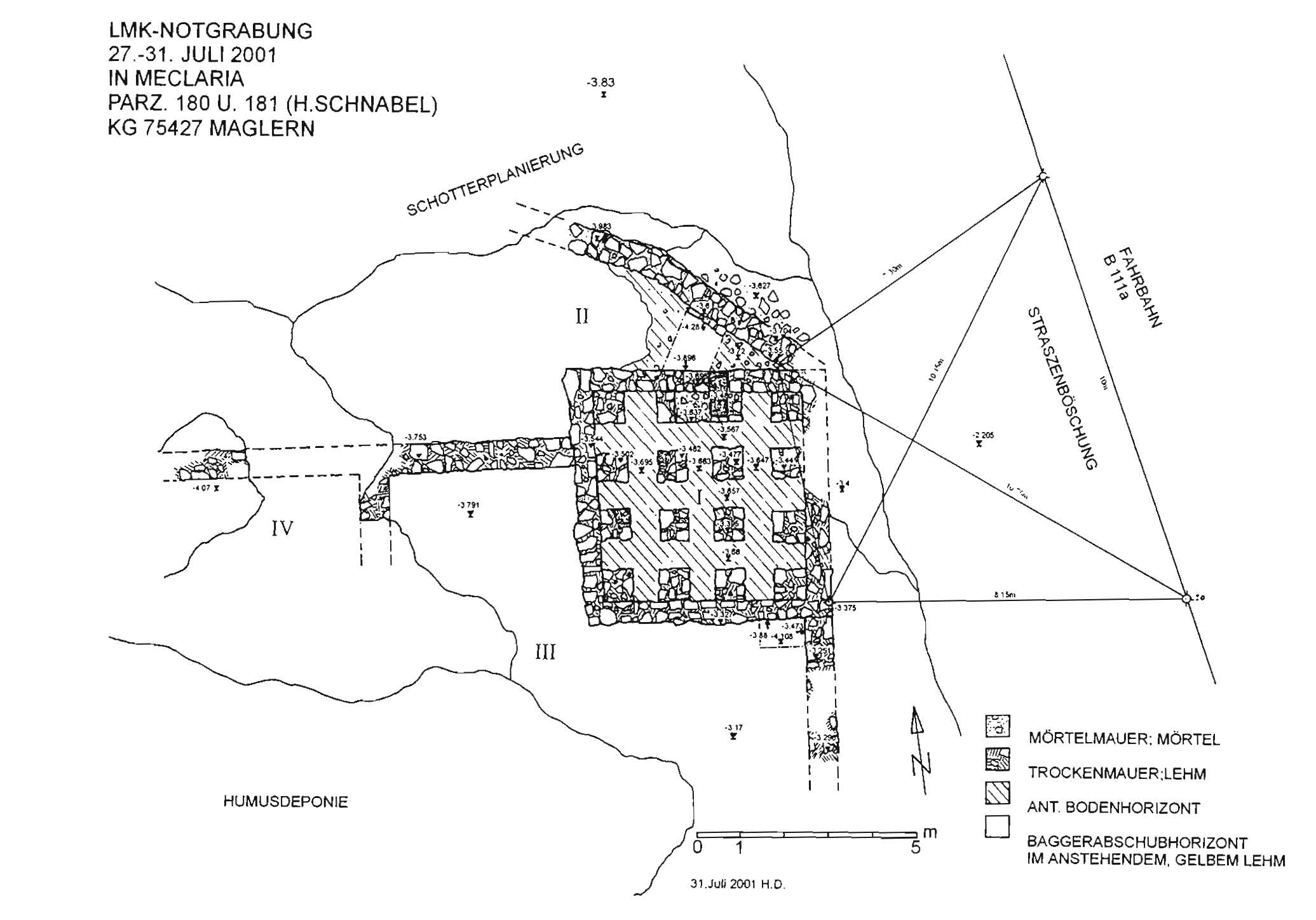 Ground plan of an archaeological site in "Meclaria", Thoerl-Maglern, municipality Arnoldstein, district Villach Land, Carinthia / Austria / EU